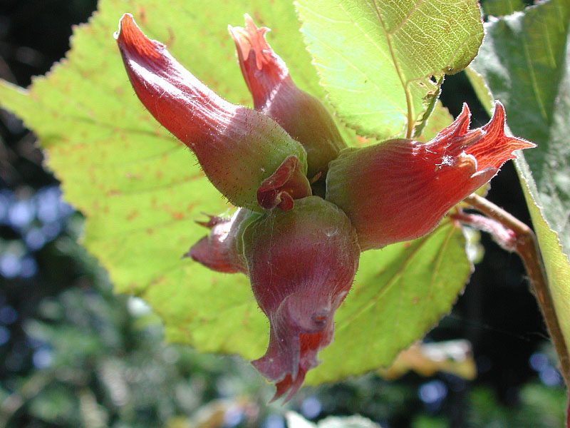 Lambertshasel (Corylus maxima), Frankfurt/M., Germany